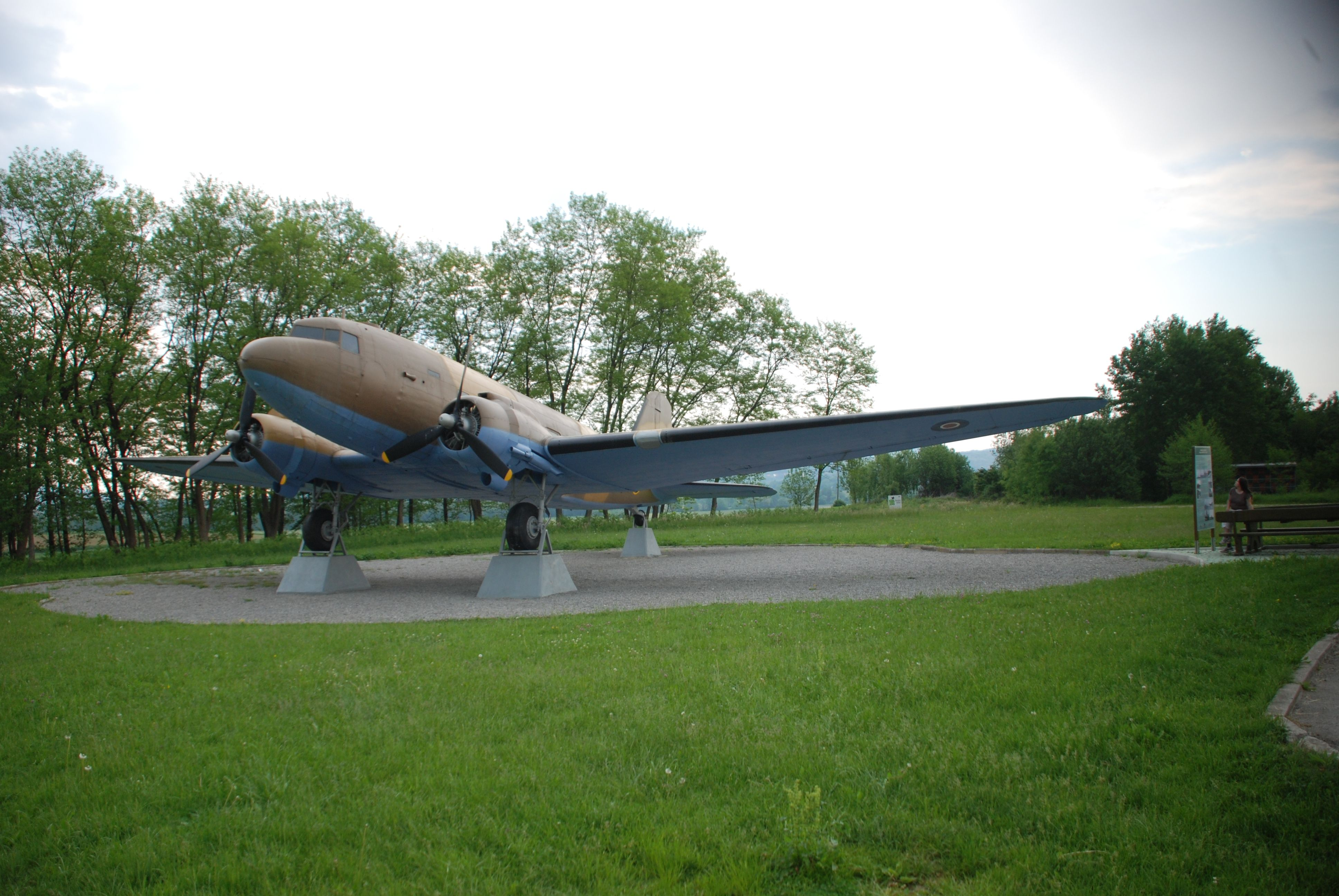 Douglas DC-3 Dakota C-47 Skytrain aircraft (World War II memorial). Otok, Metlika (Slovenia). The plane was in use for the last time by the 679th transport squadron at the Pleša Airport, Zagreb. It was put on its current location in 1984. At first, it was painted in the Yugoslav Air Forces colours, and repainted into RAF colours in 1986. Detailed information (podrobni podatki): Tactical number (taktična številka) 71 253 Length (dolžina)19.65 m Wing span (razpon kril) 28.96 m Wing surface area (površina kril) 91.7 m2 Height (višina) 5.16 m Weight (teža) 7700 kg Carrying capacity (nosilnost) 2000 kg or 25 soldiers (vojakov) Engine (motor) 2*1200 KS (882 kW) Speed (hitrost) 368 km/h Range (dolet) 2400 km